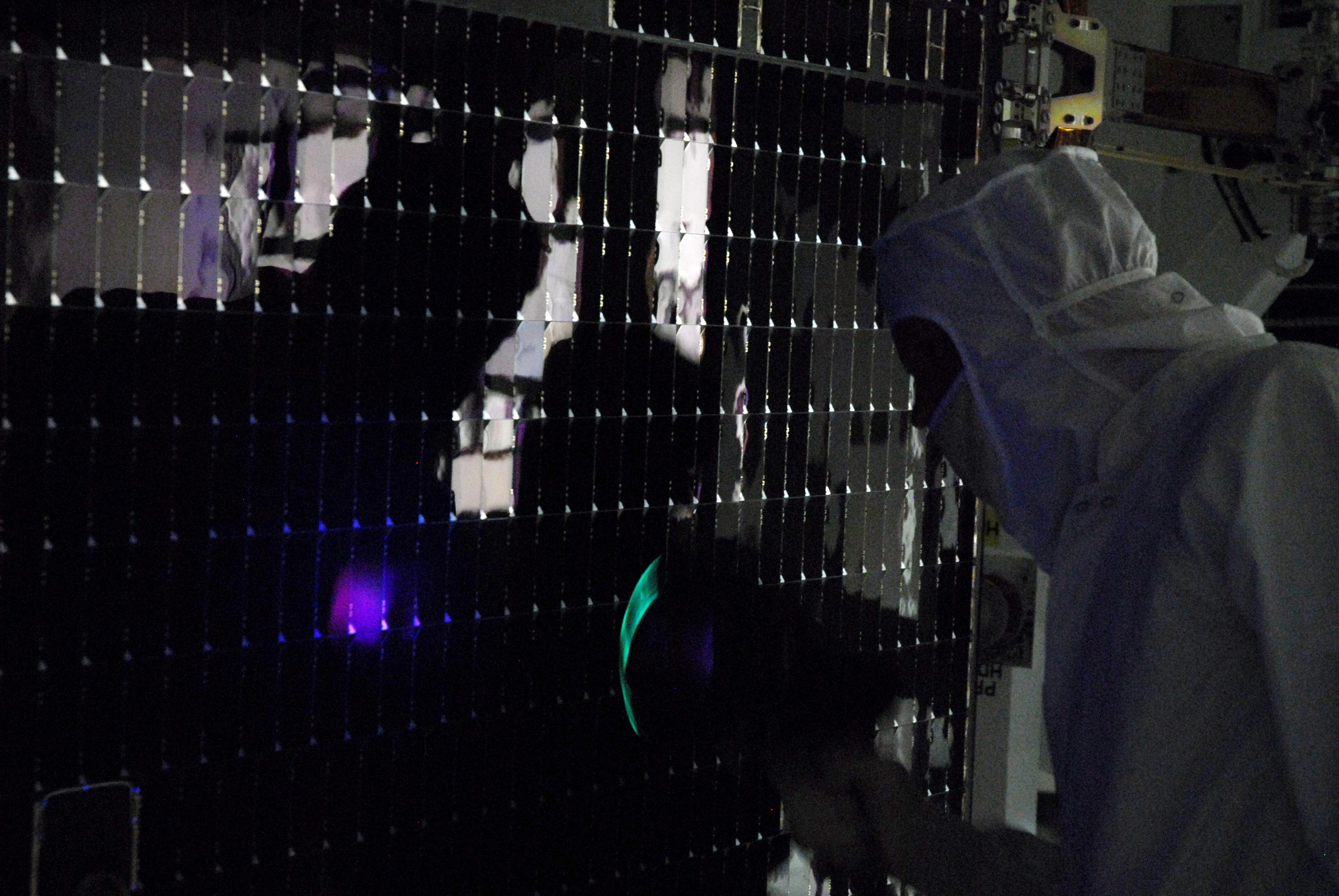 The GaAs triple-junction[1] solar cells of Dawn are tested with black light.